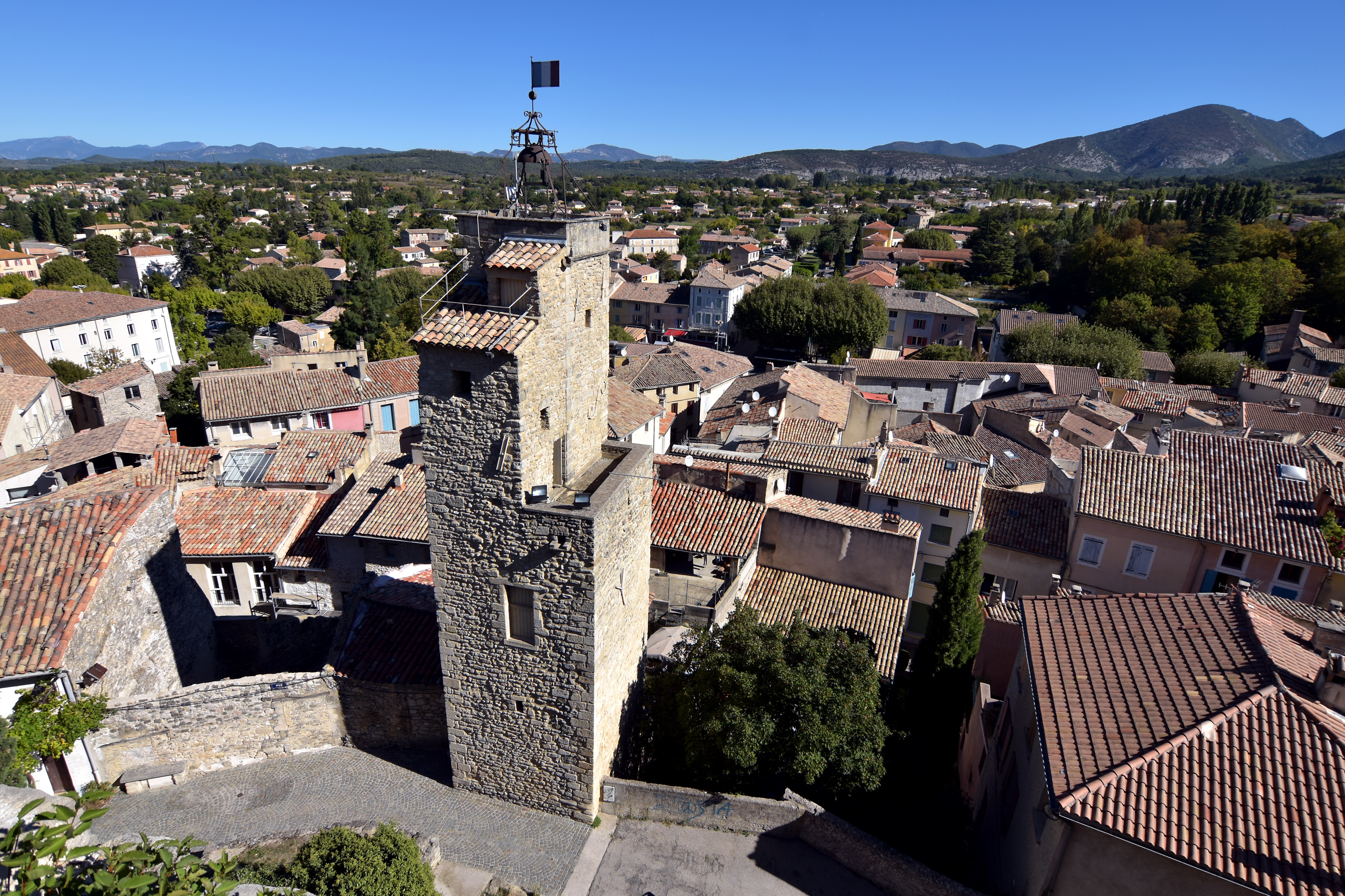 Malaucène